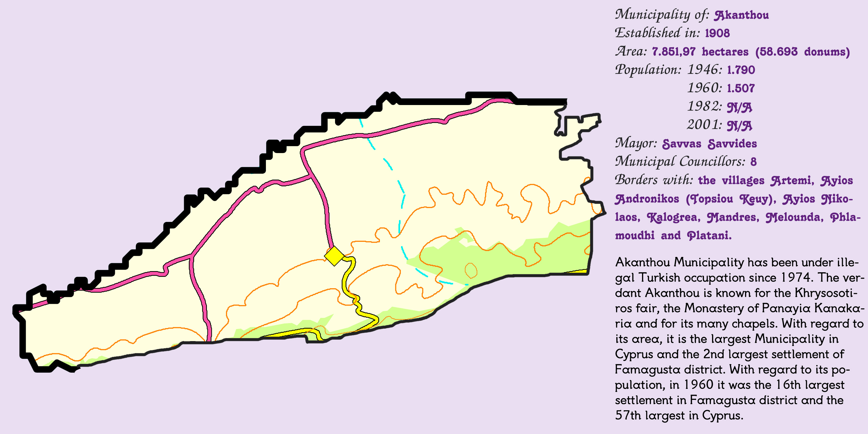 Concise presentation of Akanthou